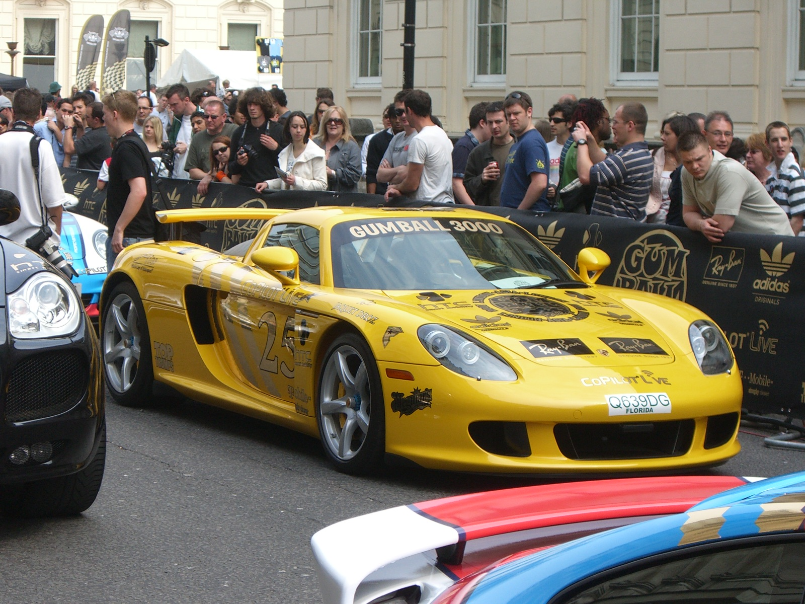 One of several Porsche Carrera GTs at the 2007 Gumball 3000